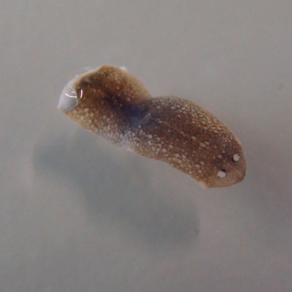 Specimen of Girardia sp. from Chile preserved in ethanol.